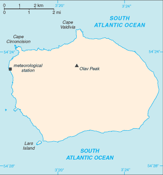 A map of Bouvet Island, showing major points of interest.